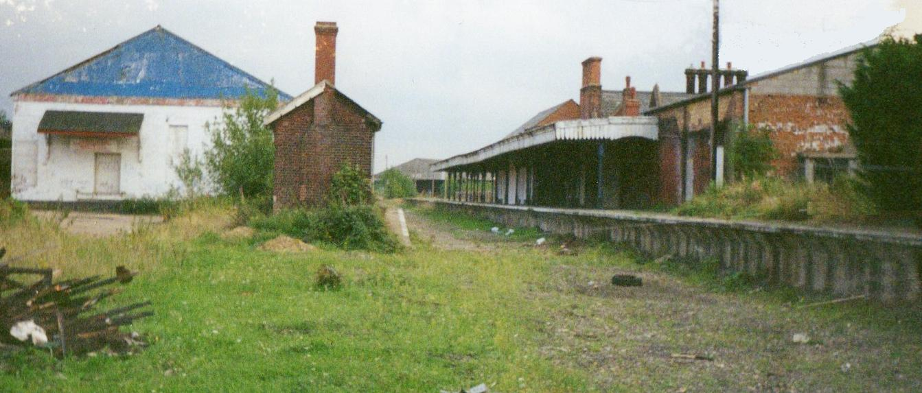 Dereham railway station after removal of track.